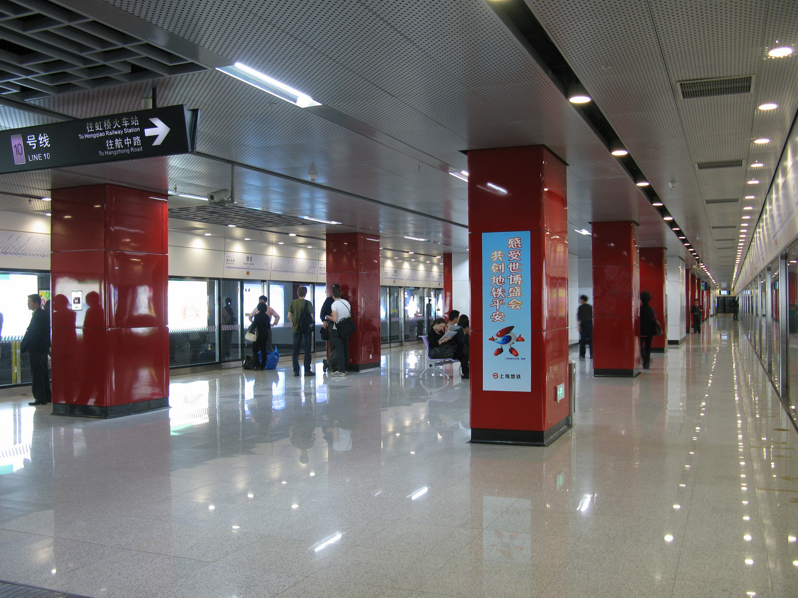 Line 10 Platform of Yuyuan Garden Station, Shanghai Metro